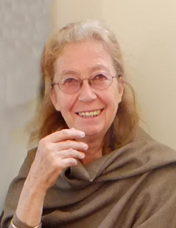 Profile photograph of Bettina Baumer